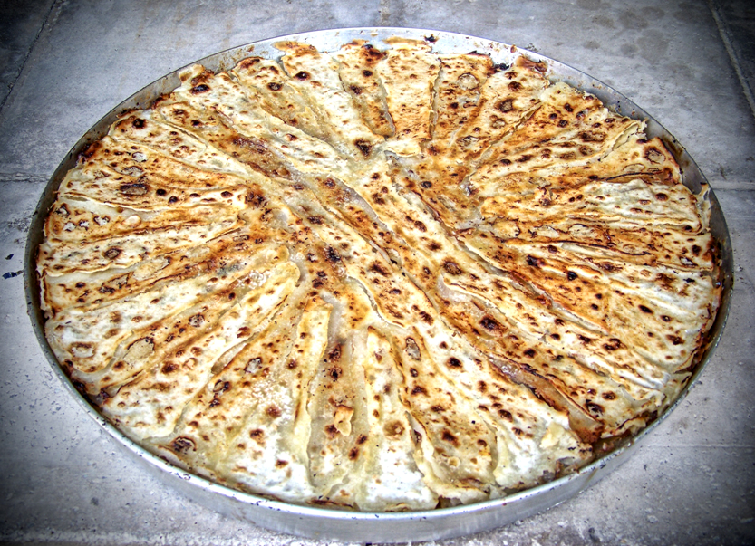 Flija a traditional meal that is usually prepared in Kosovo and Albania.